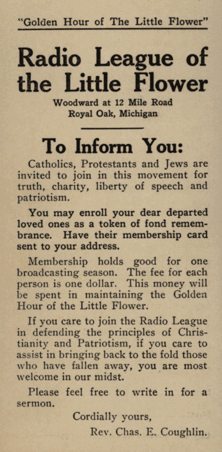 Radio League of the Little Flower membership application card